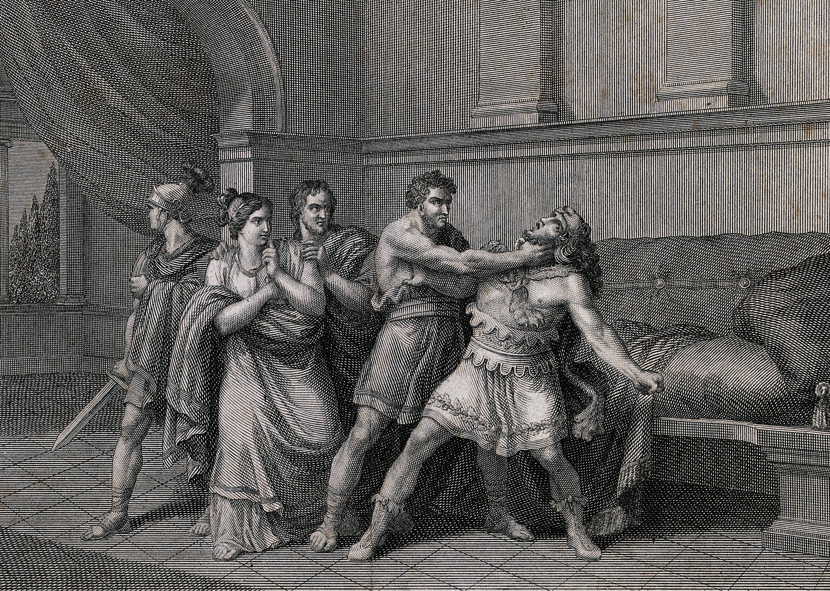 Atleta Narciso strangling Comodo. Engraving by G. Mochetti after B. Pinelli. Iconographic Collections Keywords: G. Mochetti; Bartolomeo Pinelli